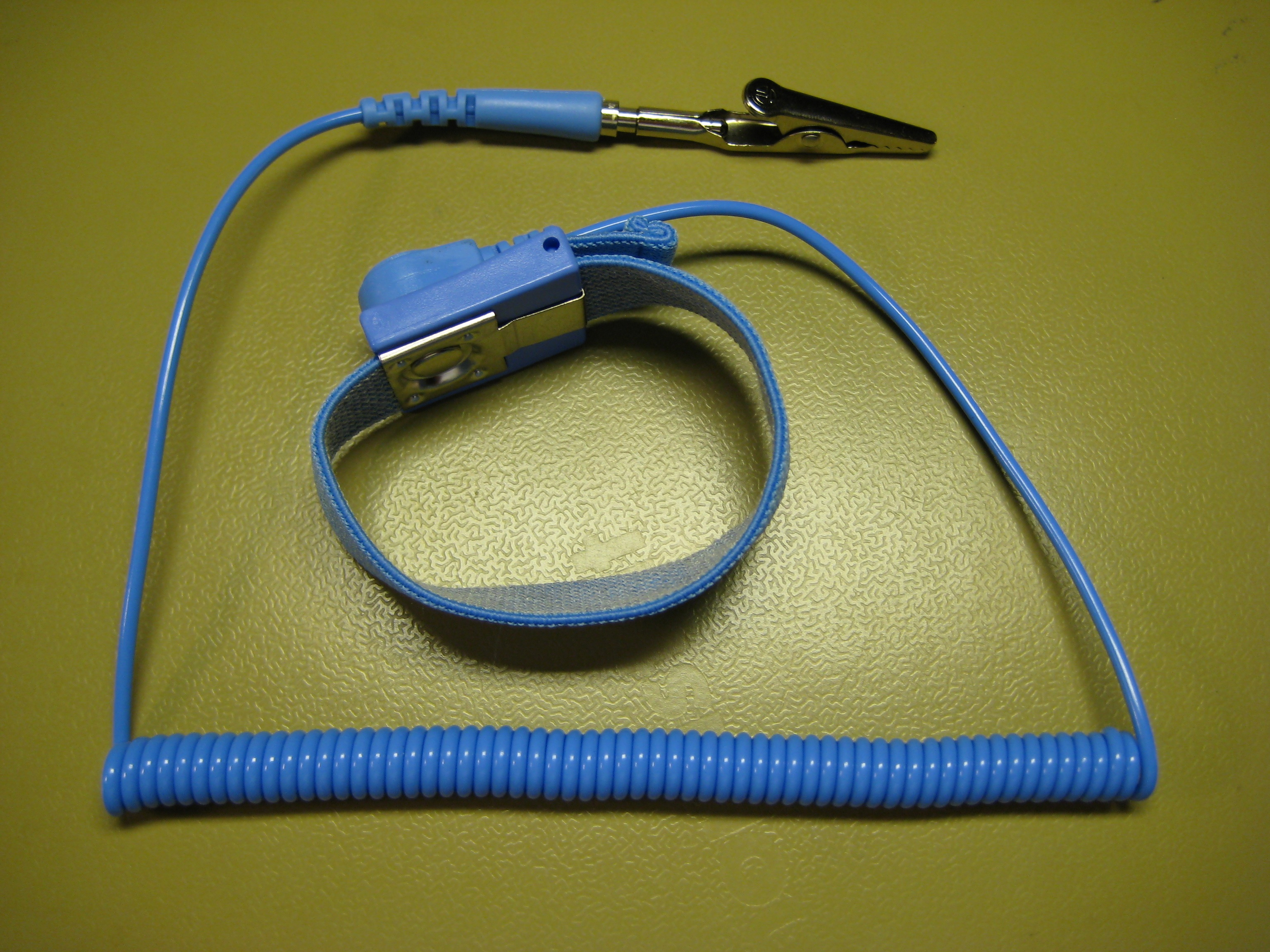 A cheap antistatic wrist strap with crocodile clip.